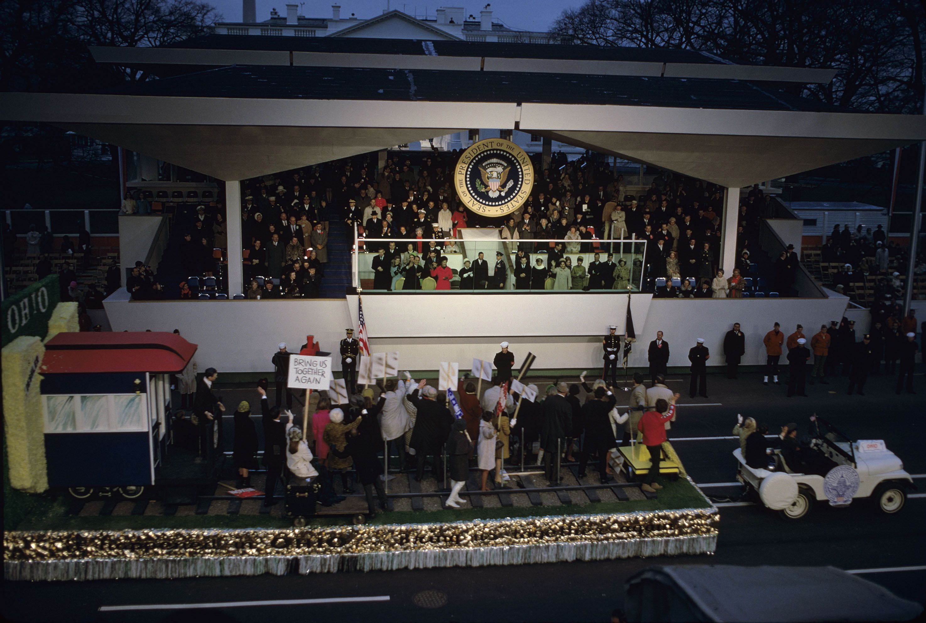 The Ohio float passes by the Presidential reviewing stand, as the Ohioans aboard wave at President and Mrs. Nixon